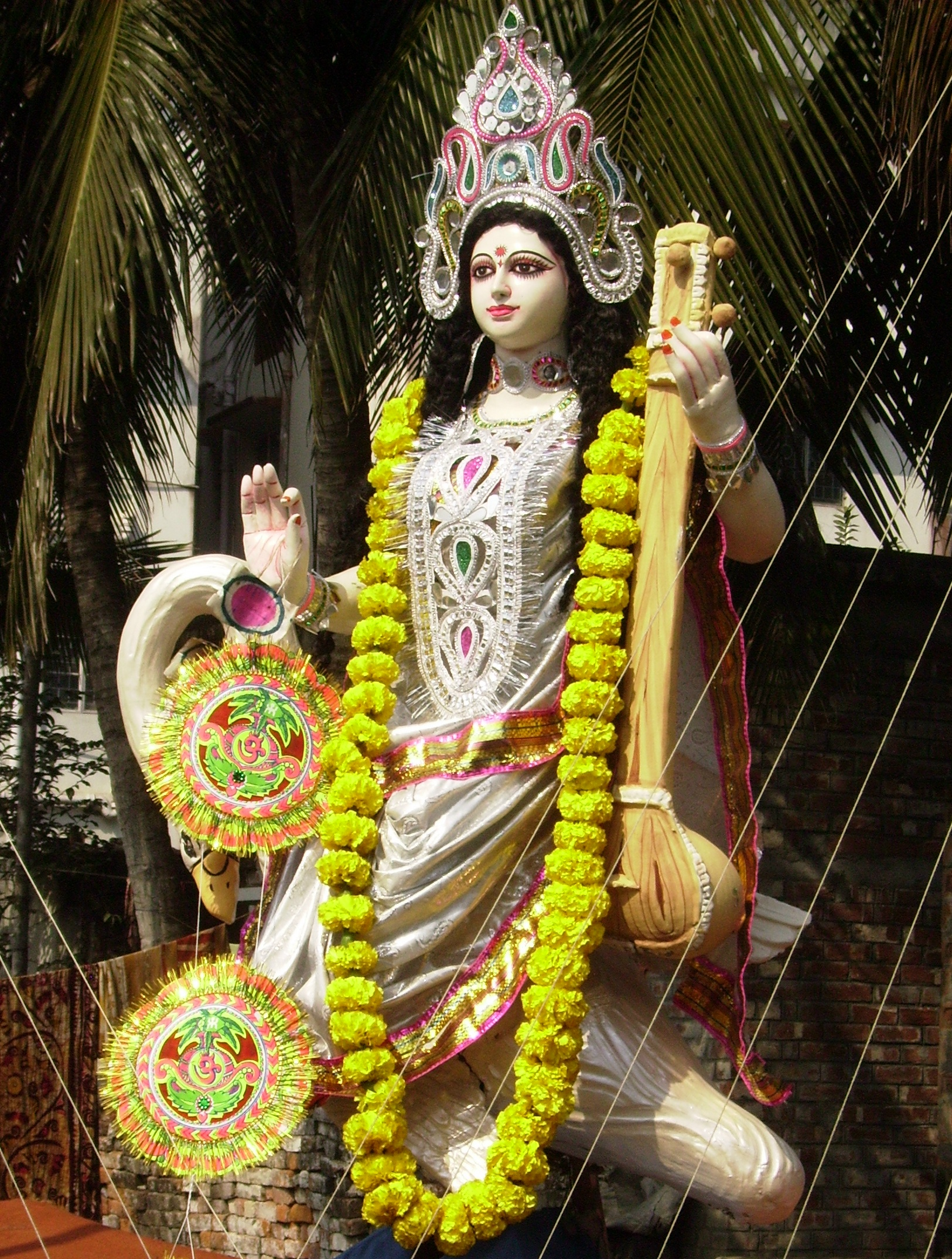 Saraswati ist the Hindu Goddess of learning, speech and arts, in her left hand her instrument, the vina (here in the form of a tampura). The Vitarka Mudra is the hand gesture of teaching and discussion. An Altar on Vasant Panchami, the festival of the goddess.